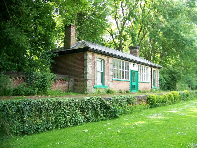 Clare Original description: The waiting room at Clare station